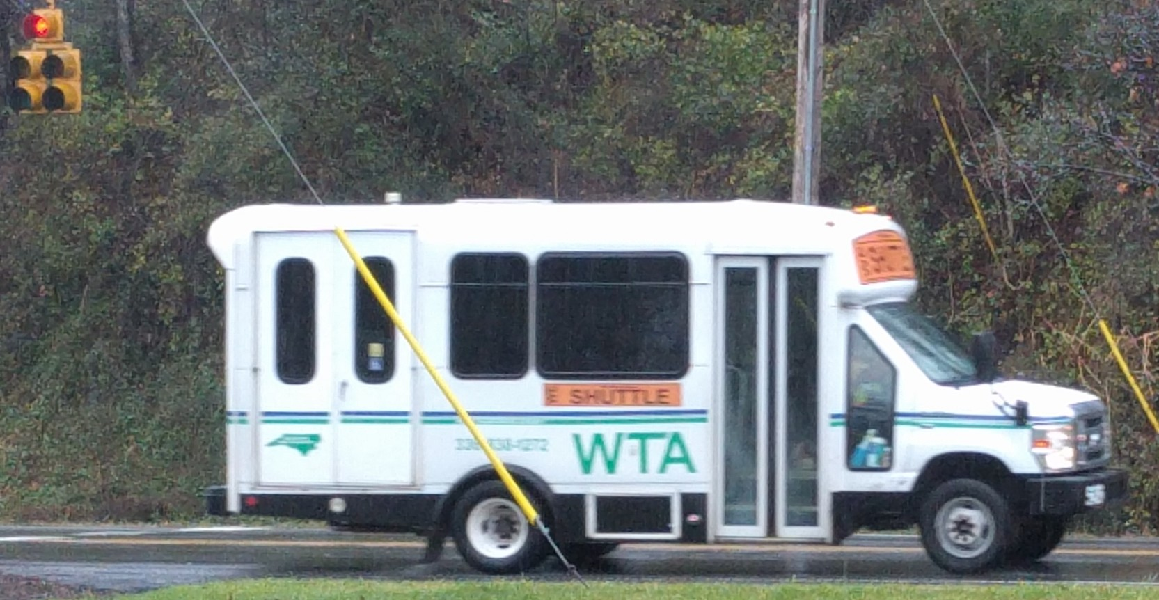 Wilkes Transportation Authority Wilkes Express Shuttle turning right at a light after leaving the West Park stop.